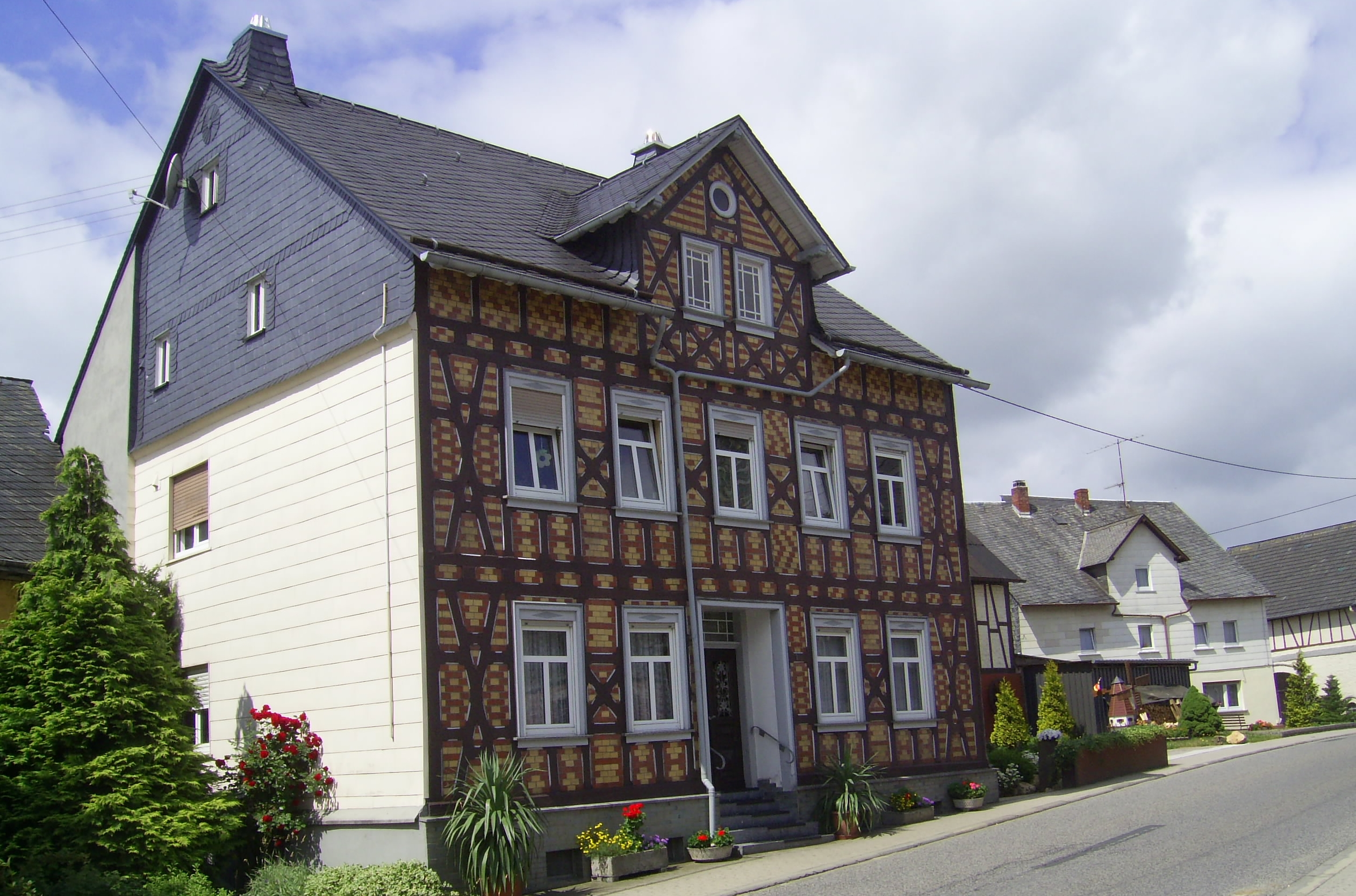 Village Bärenbach in the Hunsrück landscape, Germany.